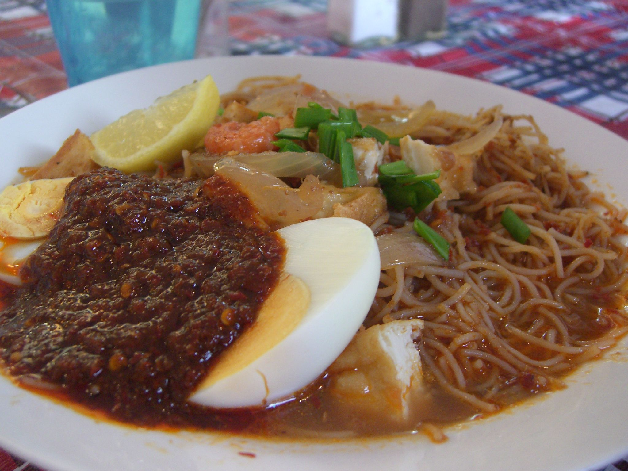 Mee Siam - Tastes of Singapore AUD6.50 Spicy sour soup flavoured with tamarind, dried shrimps, and salted soy beans.